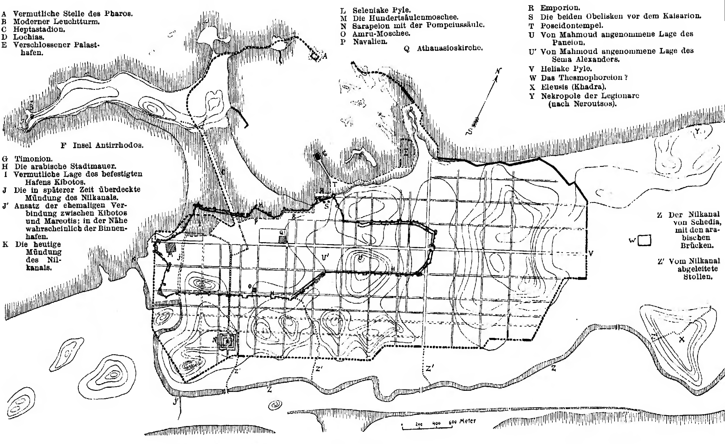 Map of Alexandria